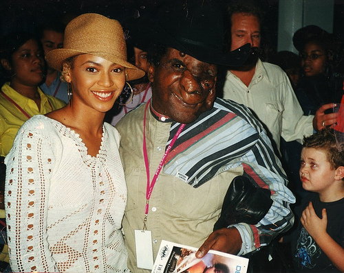 Reggie Bibbs backstage with Beyoncé.